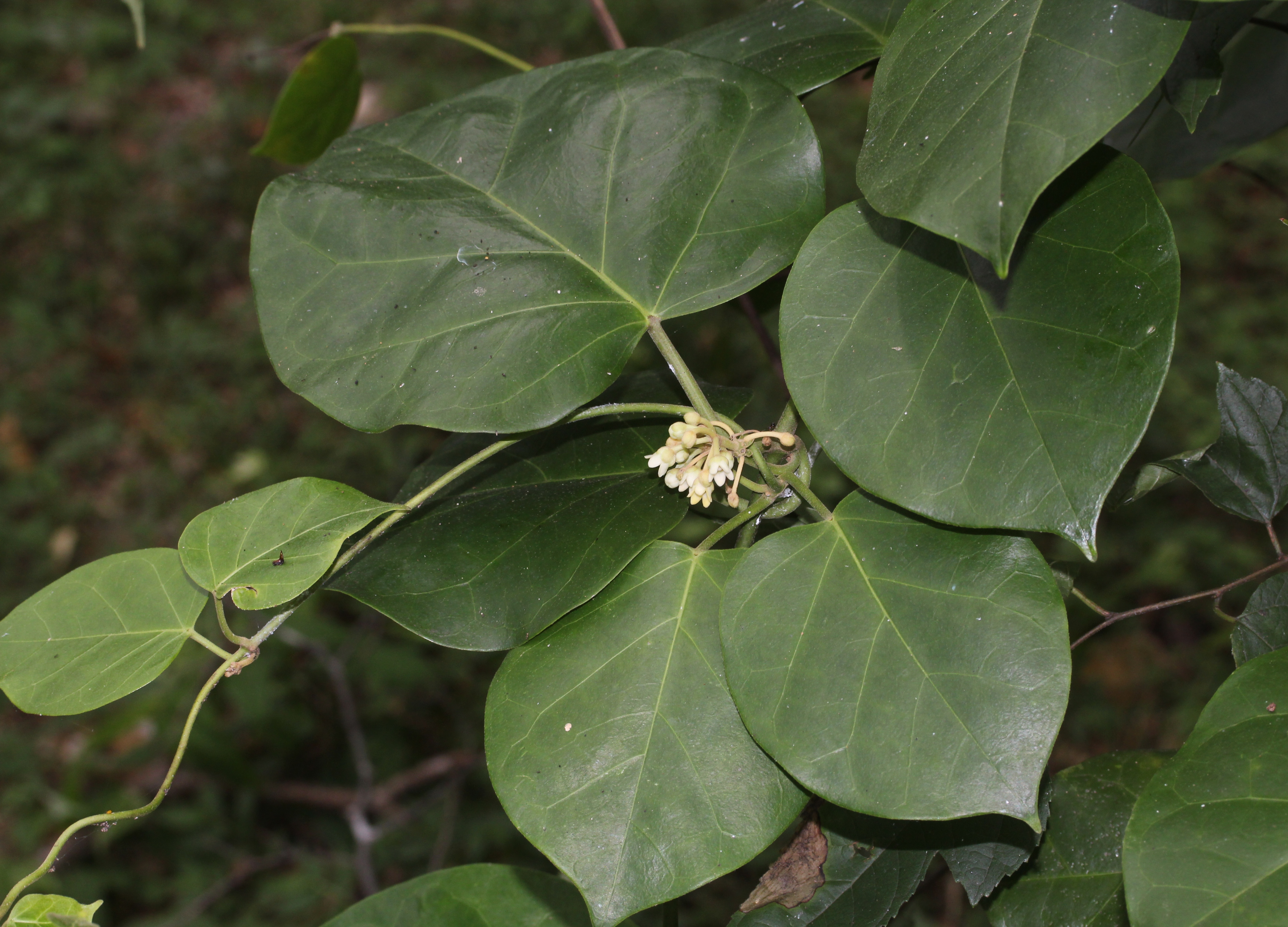 Marsdenia tomentosa in Kasugai, Aichi prefecture, Japan.